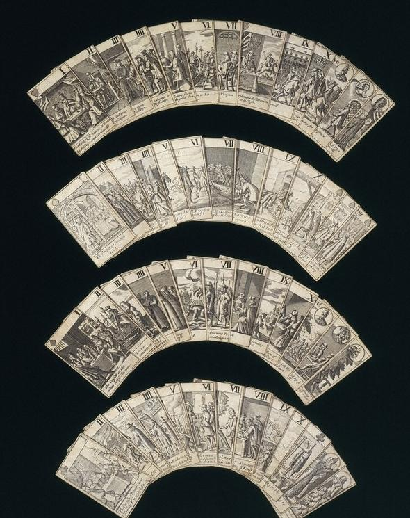 Pack of playing cards, about 1679, Francis Barlow V&A Museum no. 20366:1 to 52 Techniques - Engraving, ink on paper Place - England Dimensions - Height 8.8 cm (each), Width 5.2 cm (each) Object Type - These playing cards are engravings. The images were made by cutting lines into the surface of a flat piece of metal, inking the plate and then transferring the ink held in the lines onto a sheet of paper. Francis Barlow's original drawings for the engravings are in the British Museum, London. Subject - The Popish Plot was a fictitious Catholic conspiracy to kill Charles II that the Reverend Titus Oates claimed to have uncovered in 1678.The pictures on these cards tell the story of the plot and show the dire penalties meted out to alleged Roman Catholic enemies of the state. Sets of playing cards depicting historical events were very popular in the last quarter of the 17th century. There are other political packs from the time of the Popish Plot depicting 'All the Popish Plots' and the Rye House Plot, a conspiracy to assassinate Charles II and his brother, James, Duke of York. Historical Context - There was great fear in Britain at the time of Catholic intrigue and a very real apprehension that on the death of Charles his Roman Catholic brother, James, would be placed on the throne. Prints were used to fuel public anxiety, and playing cards were another ideal means of spreading political propaganda at a low cost. Many packs were designed and engraved by leading artists of the day.